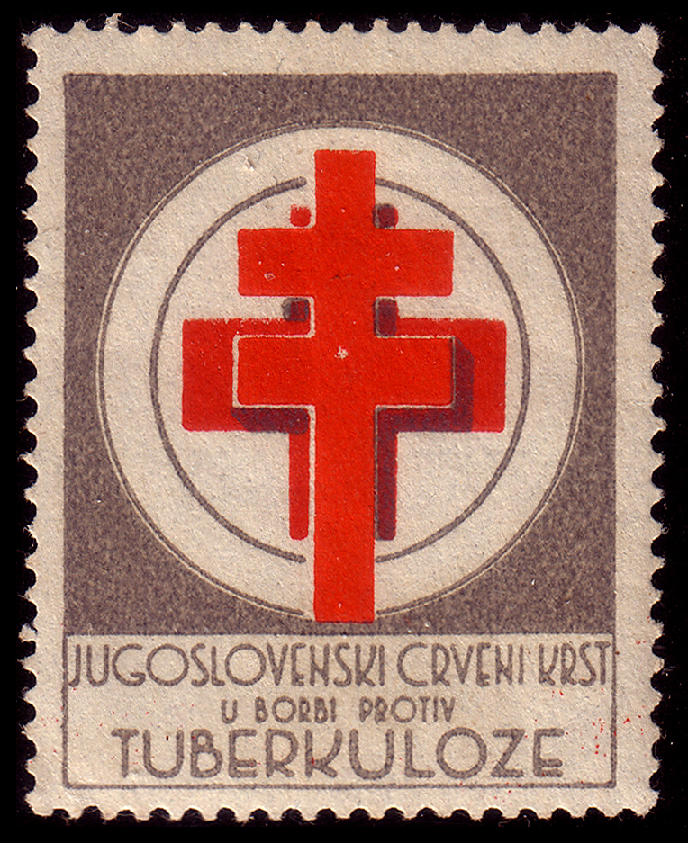 Non-postage seal of Yugoslavia, 1940s, created to struggle against tuberculosis